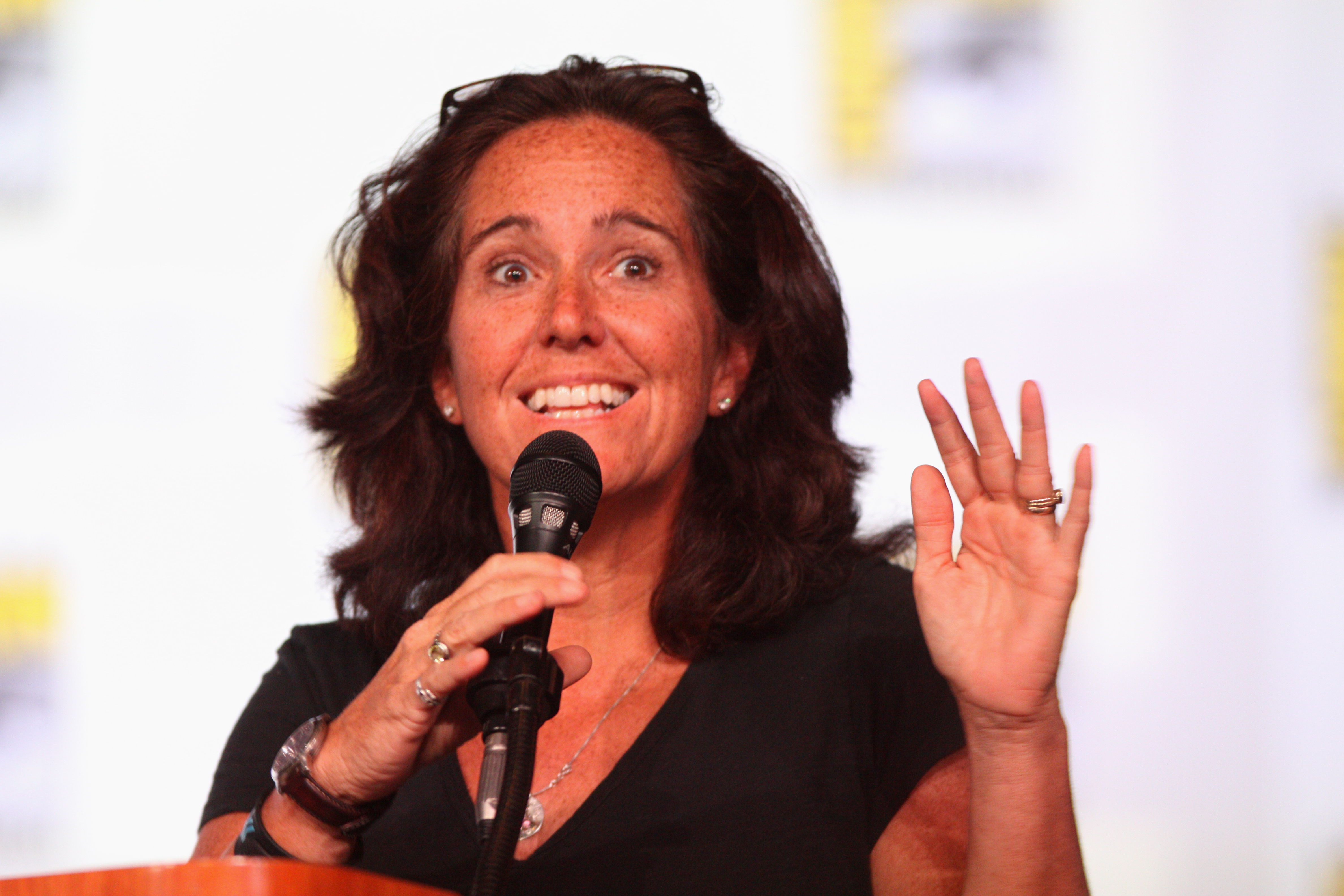 Mary McNamara speaking at the 2012 San Diego Comic-Con International in San Diego, California.